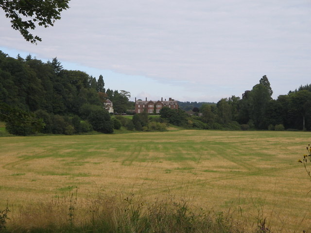 Blackwood House